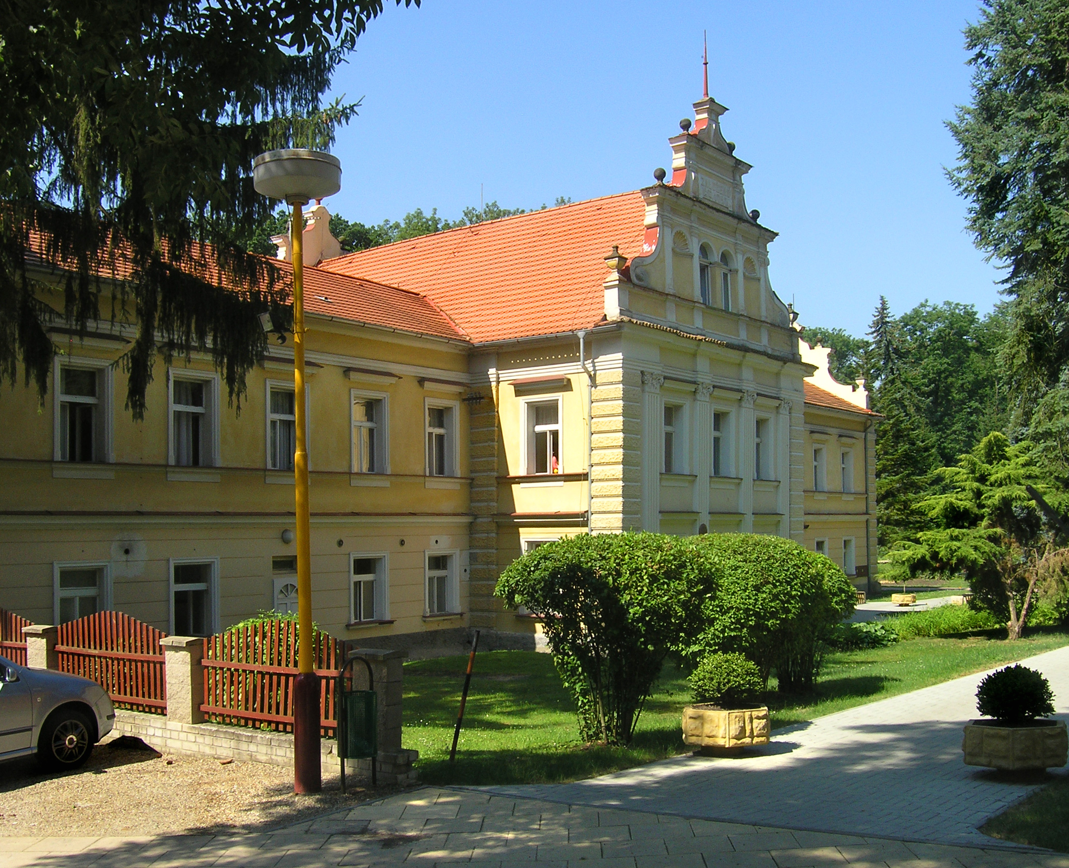 Říp-Balneo house in Mšené Spa at Mšené-lázně village, Czech Republic